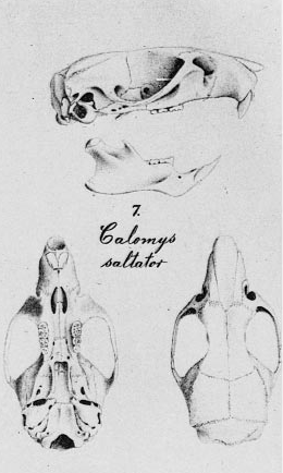 Cranium of a specimen identified as Calomys saltator Winge, currently Hylaeamys laticeps (Lund).